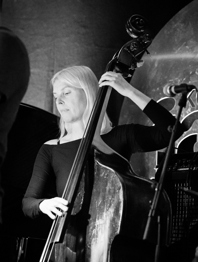 Tine Asmundsen at the stage of Argus. The concert was part of Kongsberg Jazzfestival and took place on 06. July 2017. Lineup: Tine Asmundsen (double bass) Vidar Johansen (saxophone) Rune Klakegg (piano) Magnus Aannestad Oseth (trumpet) Terje Engen (drums)